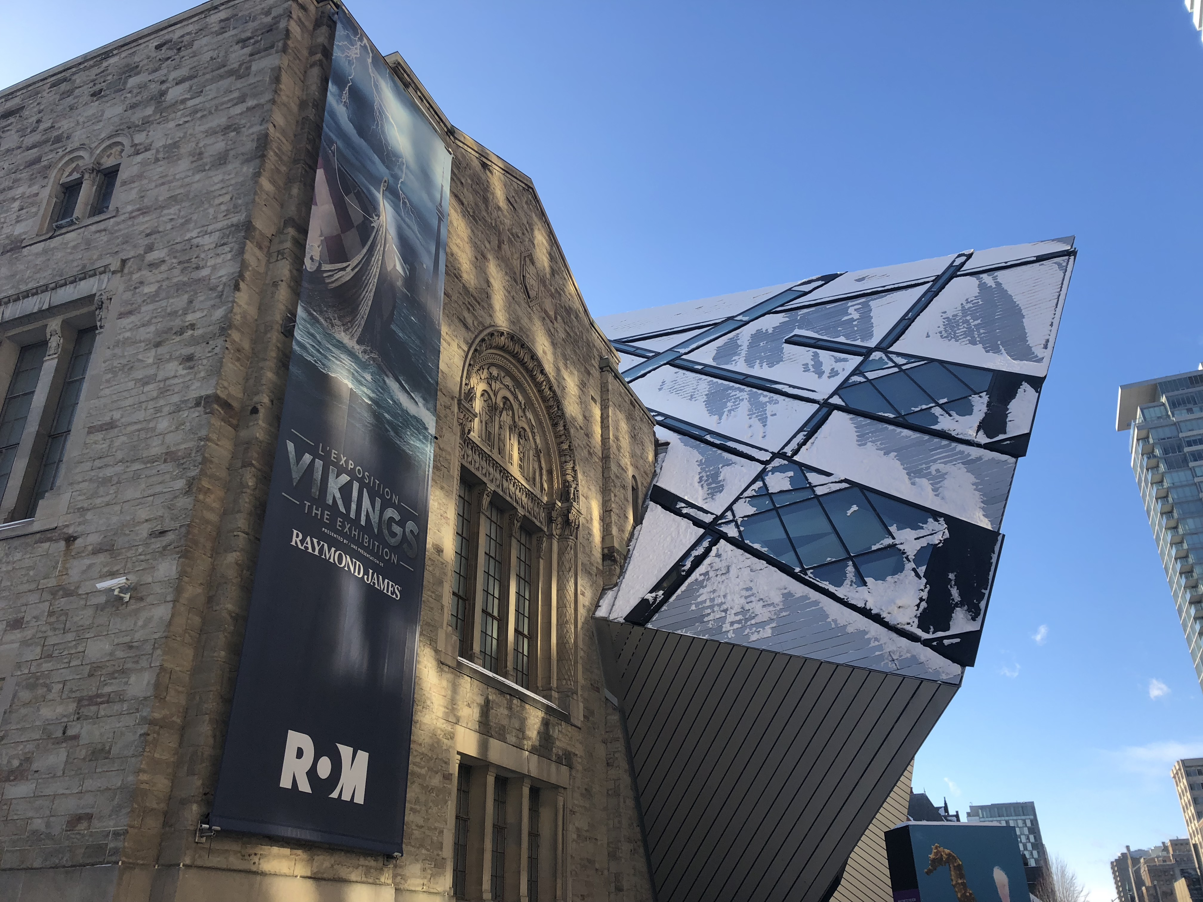 This is a photo includes the partial modern architecture of Royal Ontario Museum.